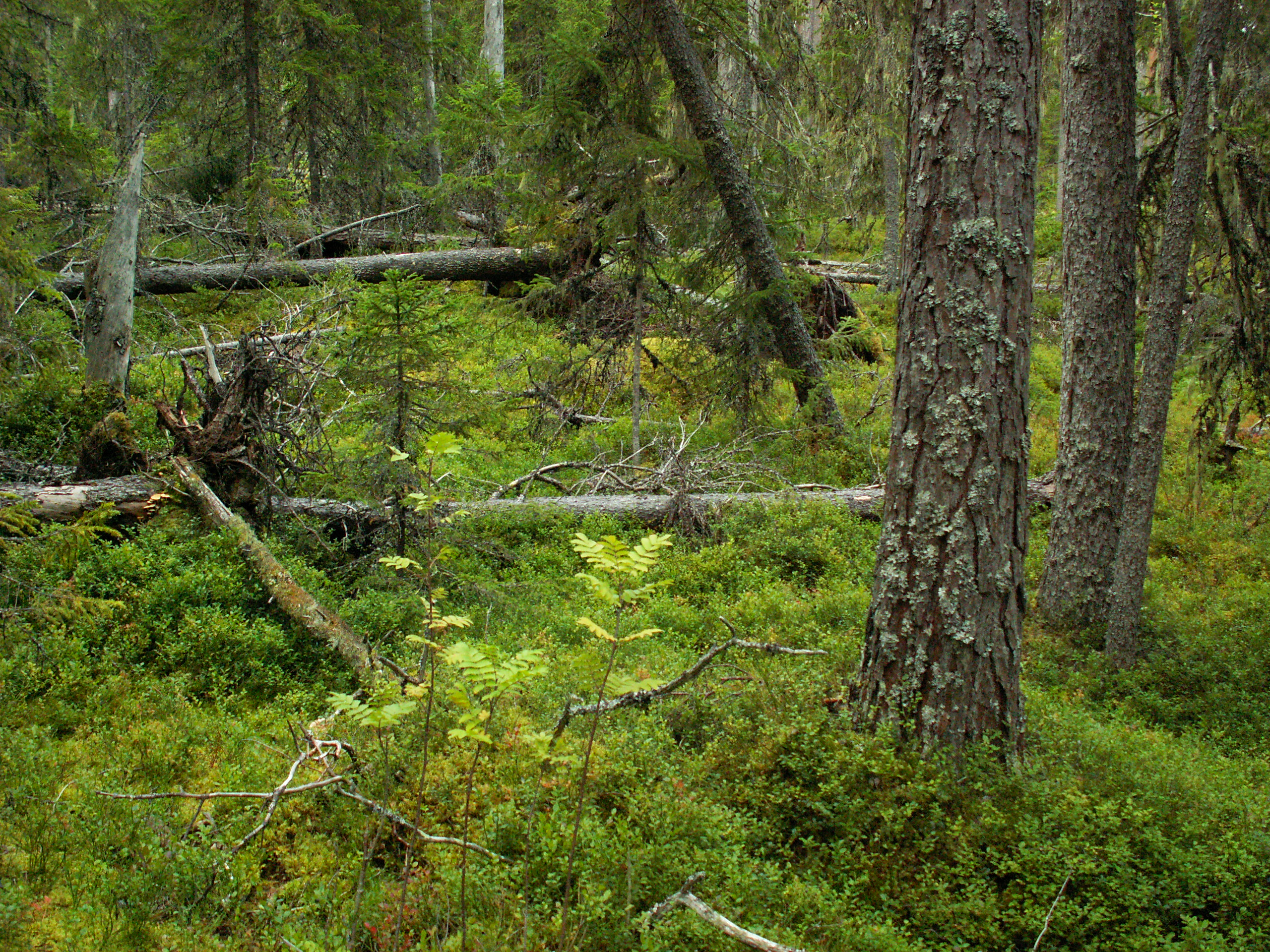 Forest in Hamra national park, Sweden